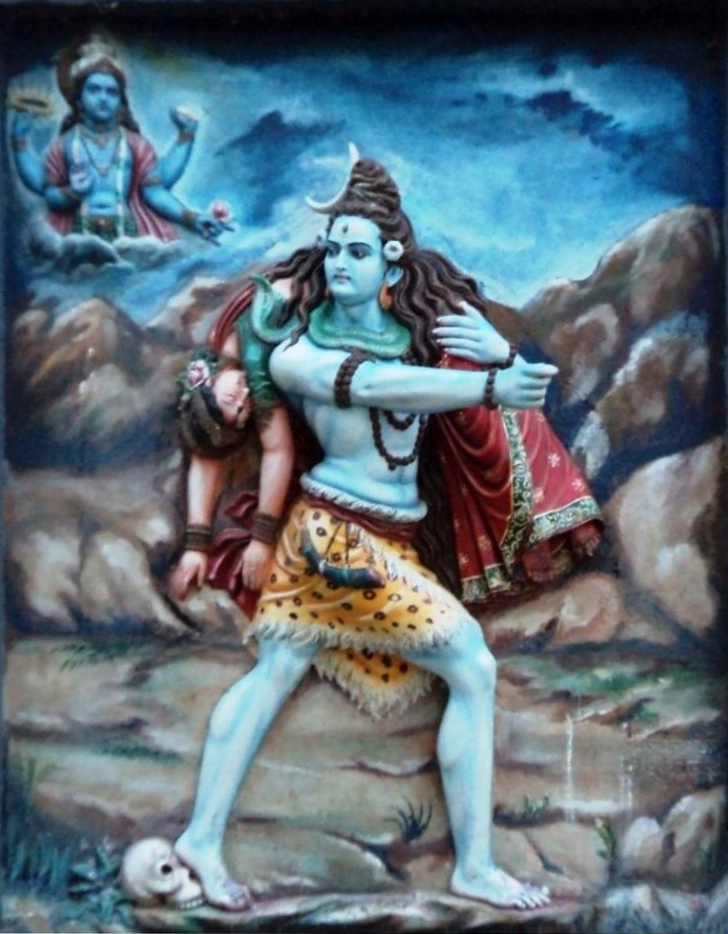 Wall picture at Srikhanda Bhoothnath temple in West Bengal. Shiva is carrying away Sati.